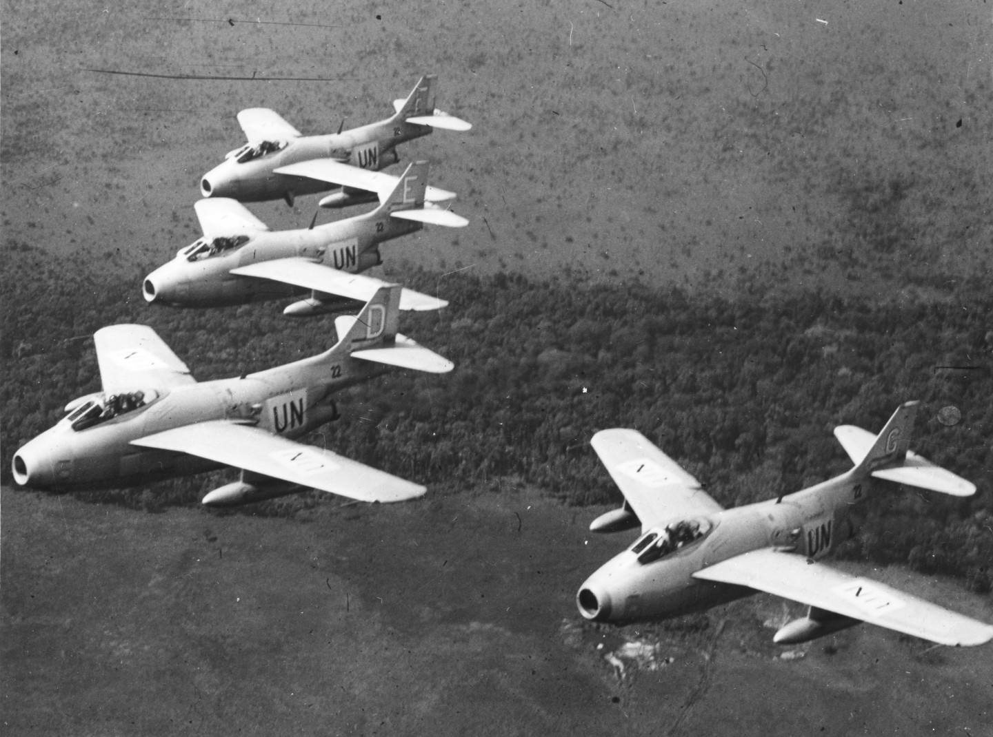 A flight of four Swedish Saab 29 Tunnan (J-29) jets in the Congo